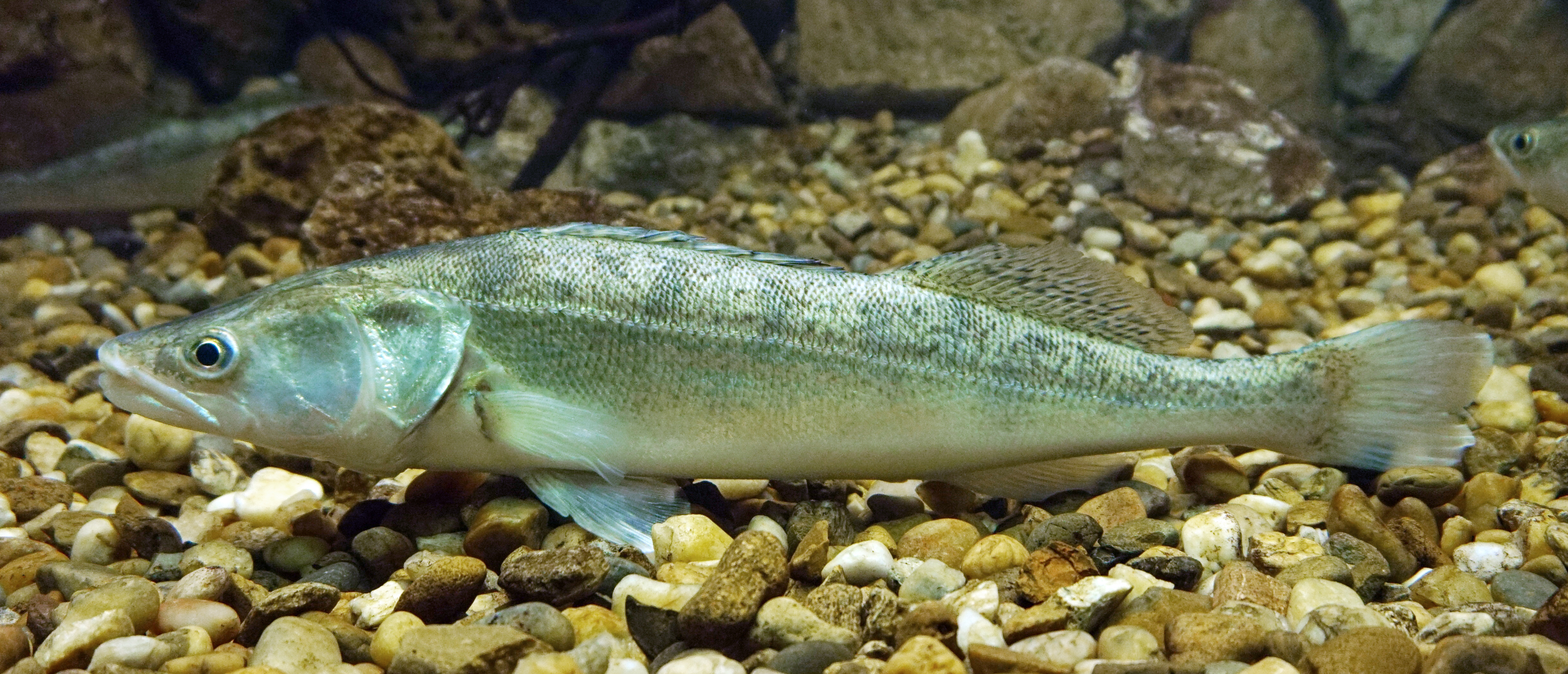 Sander lucioperca in the Ecomuseum Rousse.This photograph was taken with a Sony ILCE-5000